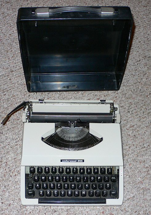 Underwood 255 portable typewriter, circa 1977, made in Japan)